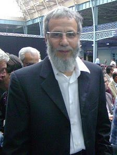 Cropped version of Image:Islam Expo 2008 (meeting) Artist Yusuf Islam.jpg